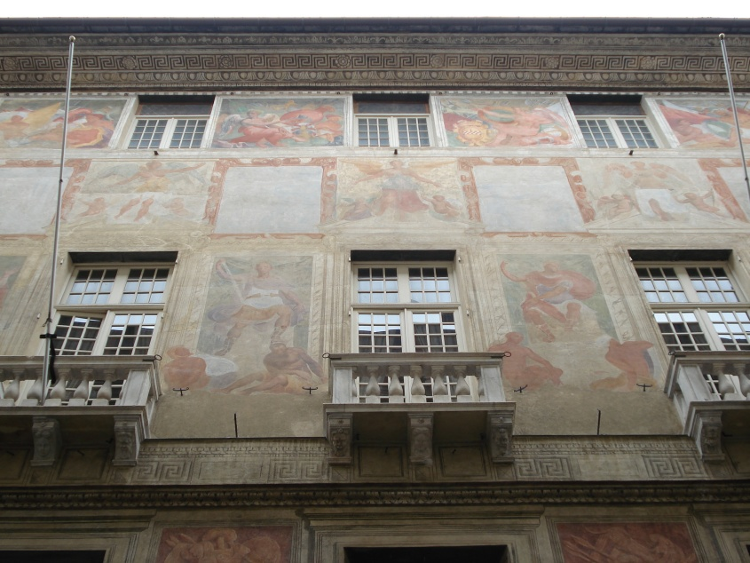 Angelo Giovanni Spinola Palace — with Italian wall paintings, in Genova.